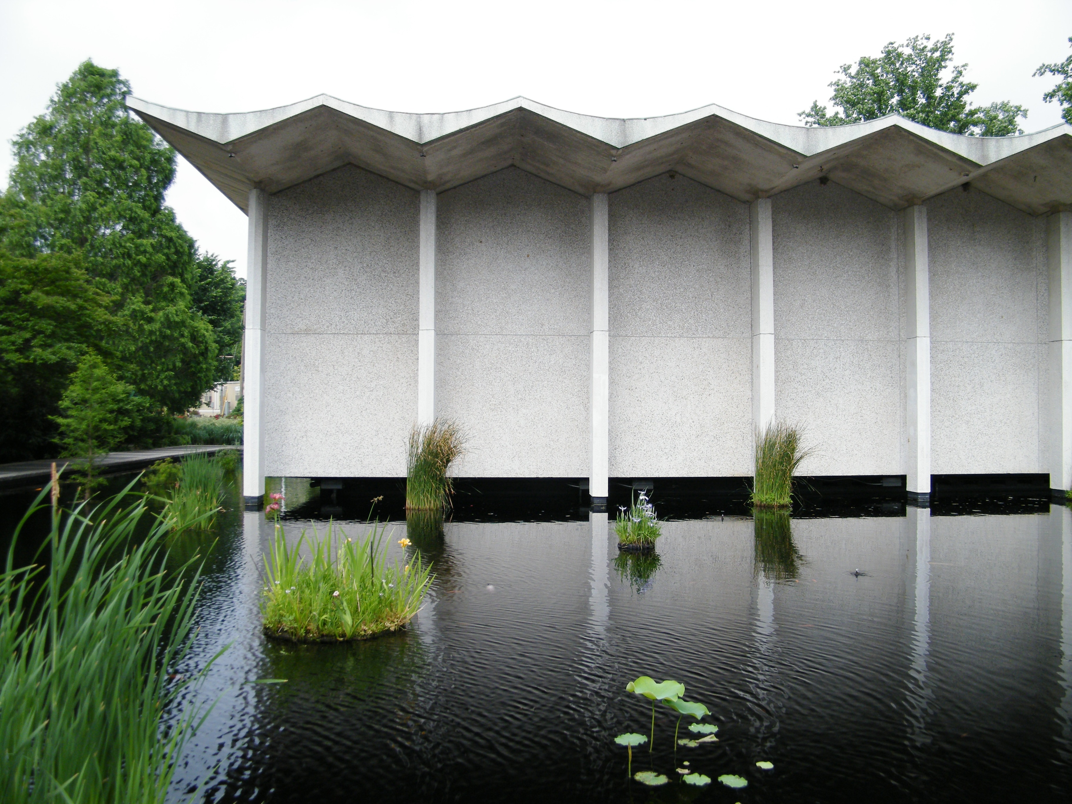 Koi pond at United States National Arboretum.